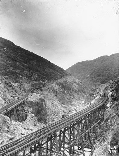 Caption on image: "Switch Back W.P. & Y.R.R." Original image in Hegg Album 3, page 35 . Original photograph by Eric A. Hegg B286; copied by Webster and Stevens 98.A. Subjects (LCTGM): Railroad tracks--Alaska; Trestles--Alaska Subjects (LCSH): White Pass & Yukon Route (Firm)